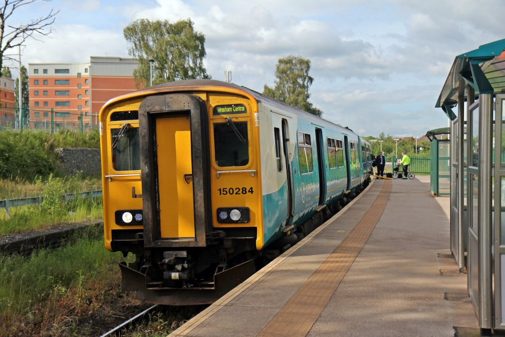 Arriva Trains Wales Class 150, 150284, Wrexham General railway station